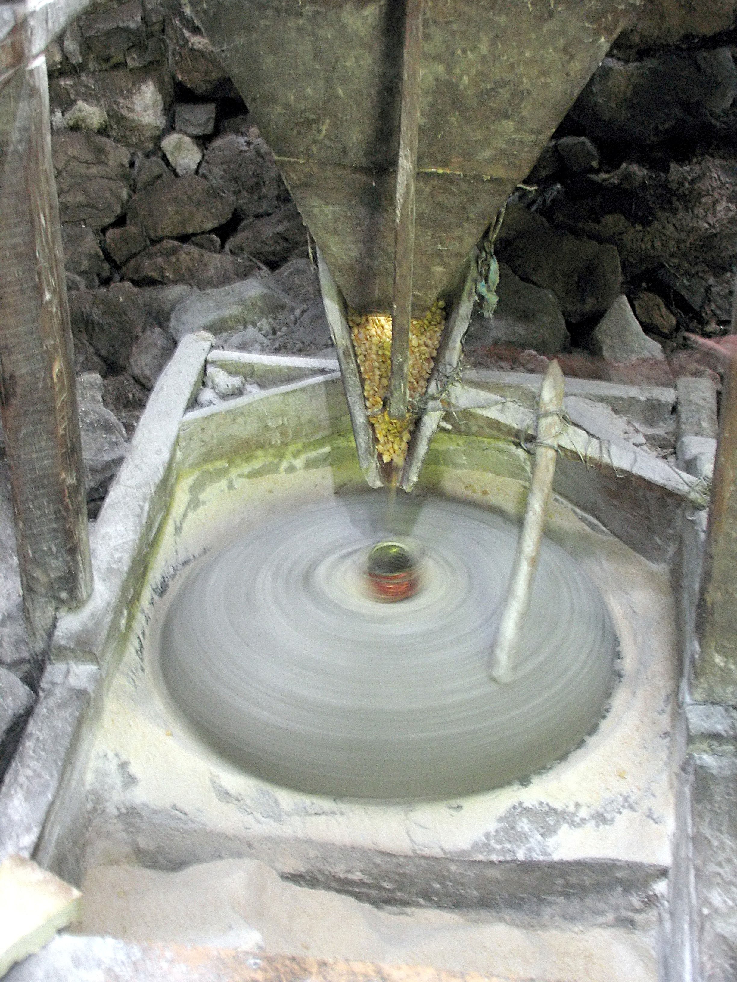 Millstones grinding maize in a watermill, Thethi, northern Albania.